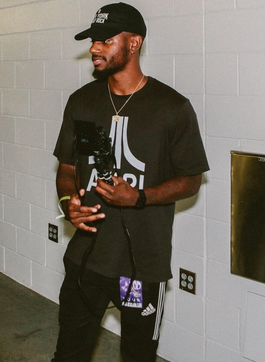 Bryson Tiller in August 2018